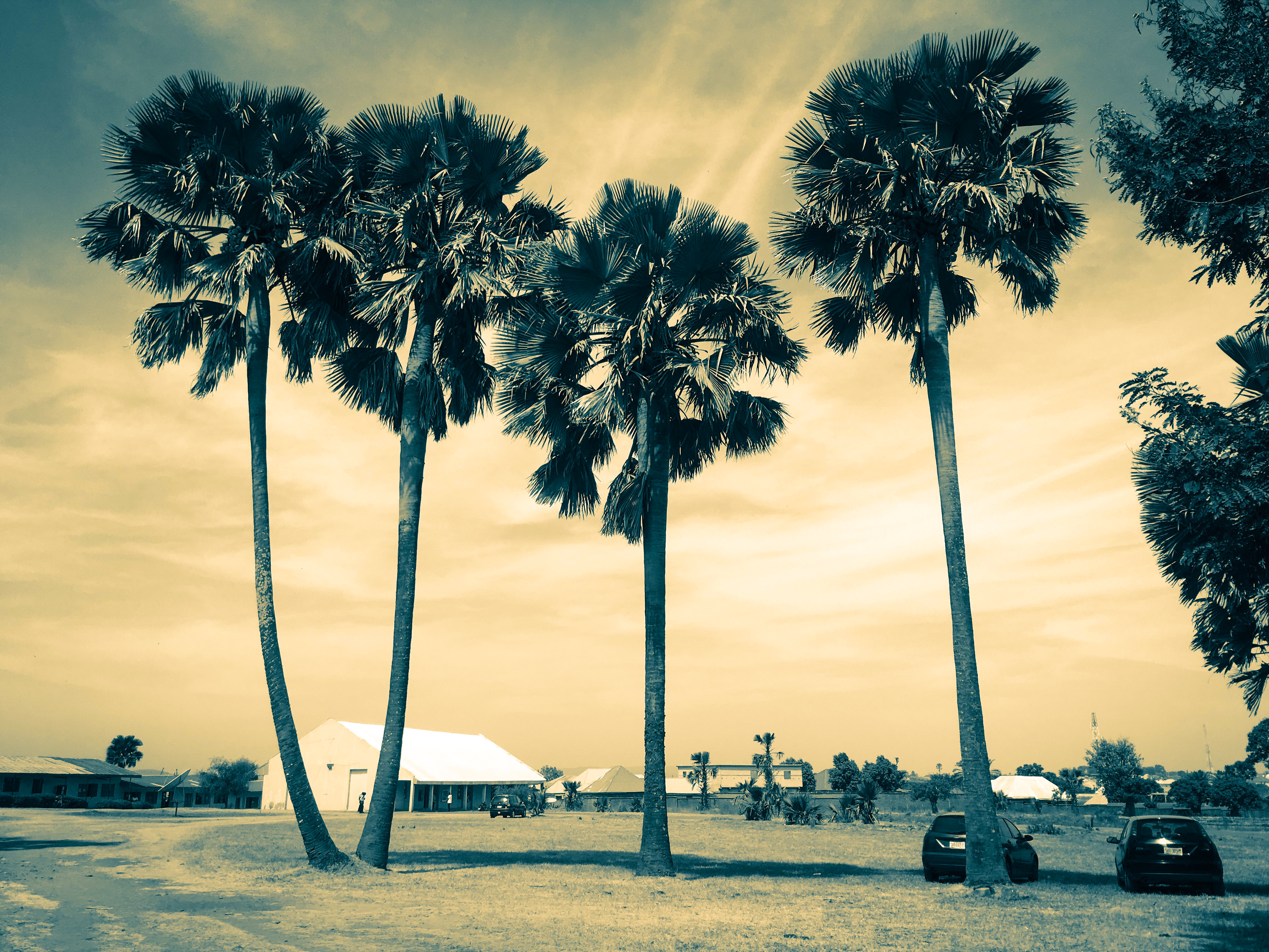 university of Jos landscape titled 'calm'